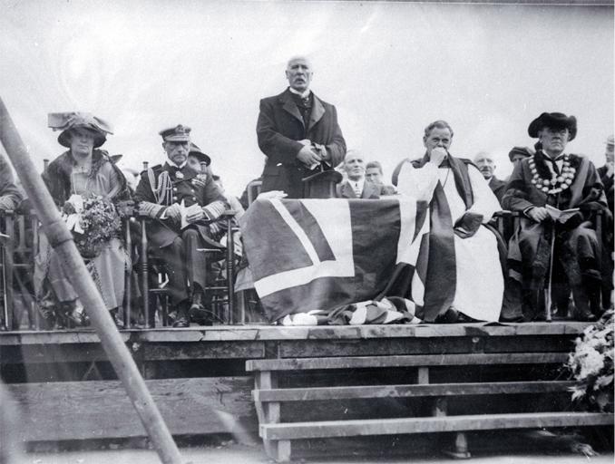 Mr Andrew Anderson makes an introductory address, foundation stone ceremony, Bridge of Remembrance. I suspect this is the son of John Anderson (1820-1897), as Anderson's Foundry was located at 126 Cashel Street.